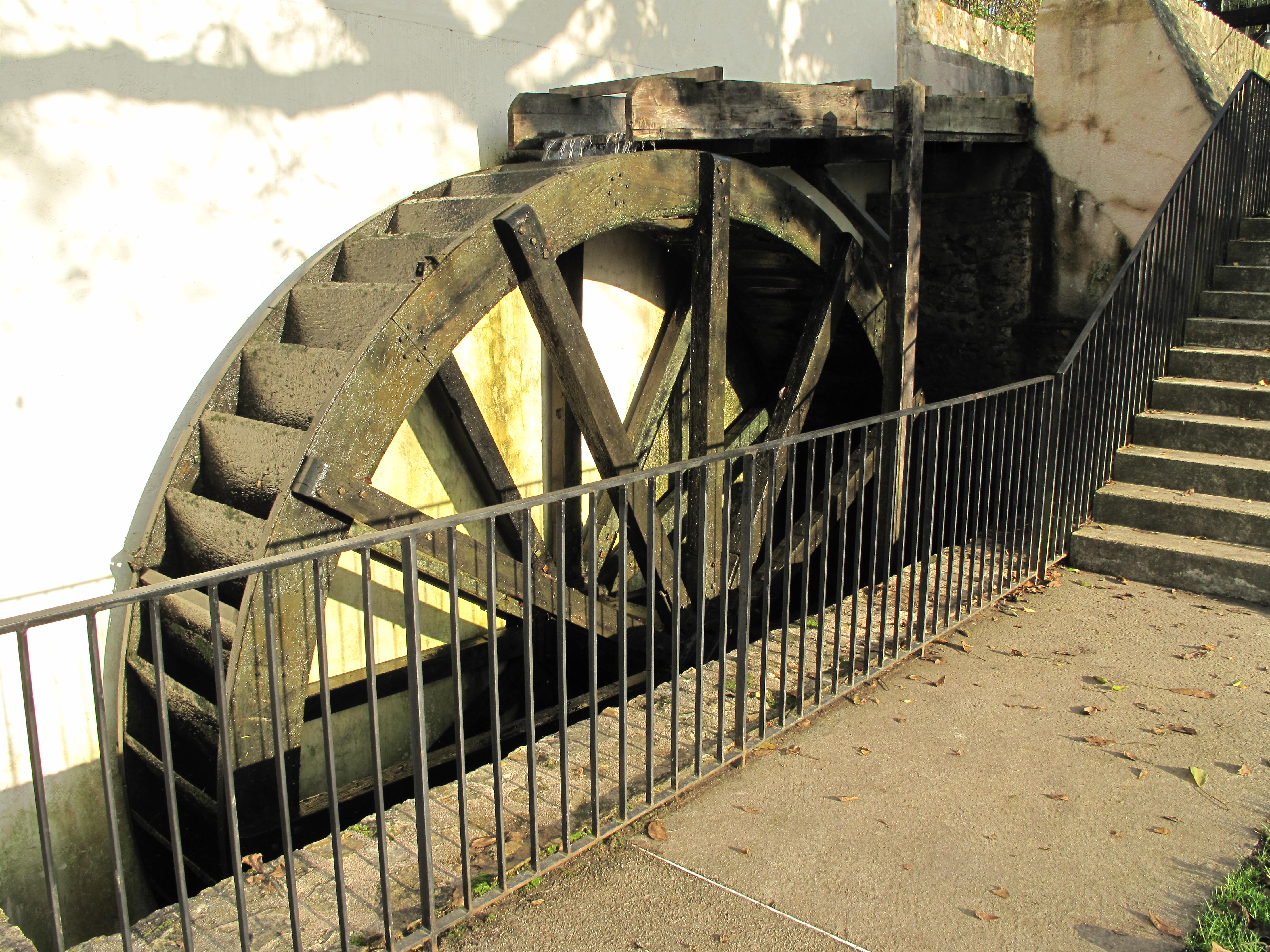 The large wheel of the moulin Russon, side view, Bussy-Saint-Georges, Seine-et-Marne, France.